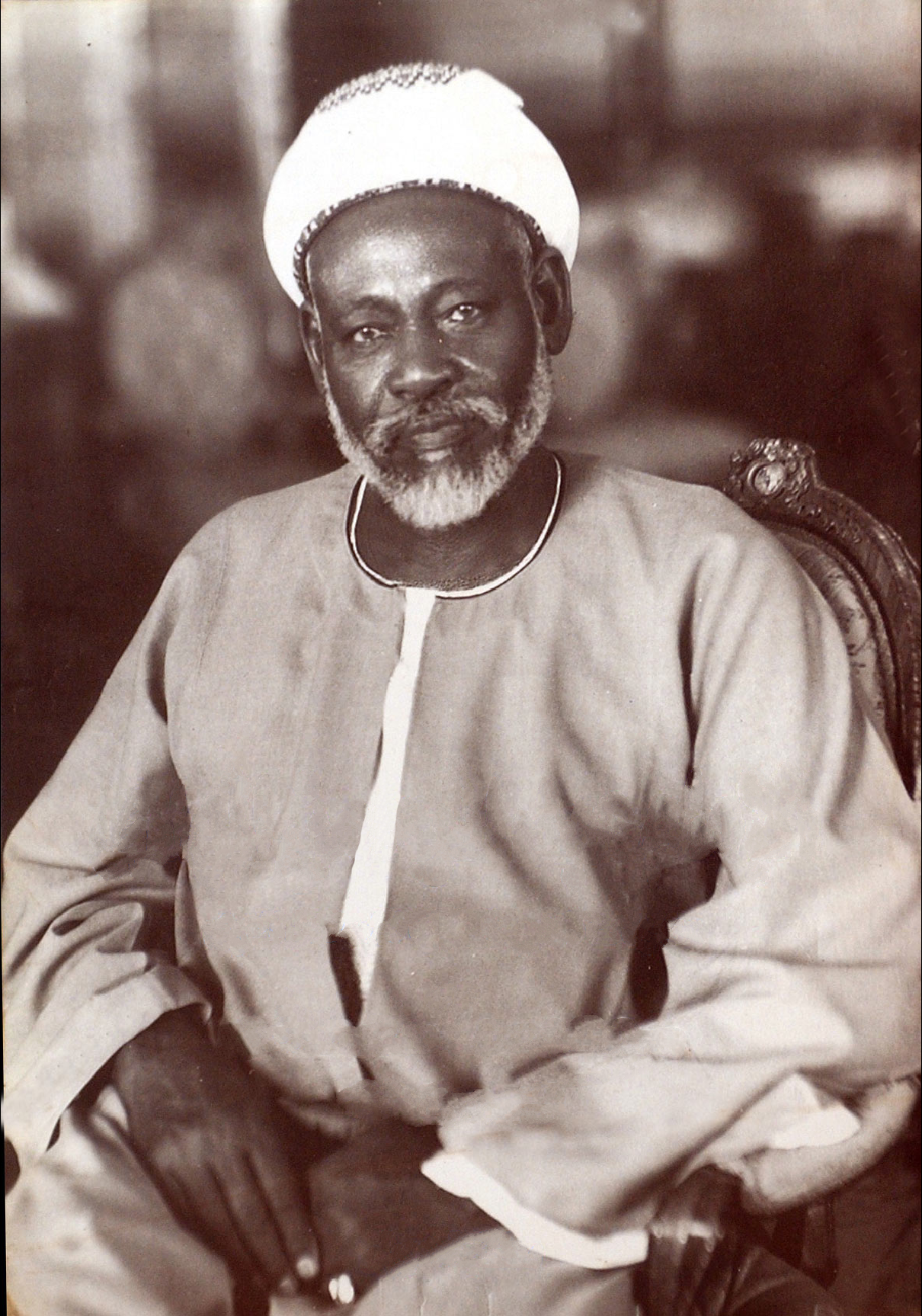 Photograph of Abd al-Rahman al-Mahdi (1885-1959); a leading religious and political figure in Sudan.